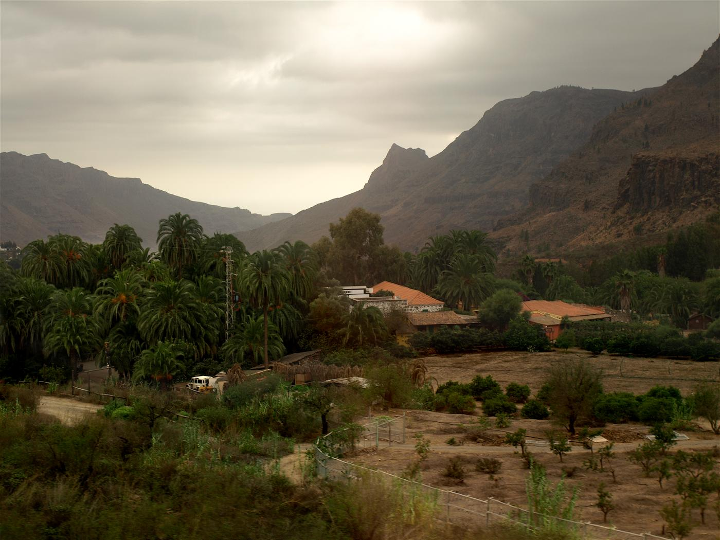 Las Palmas de Gran Canaria , Fataga, photo 2009